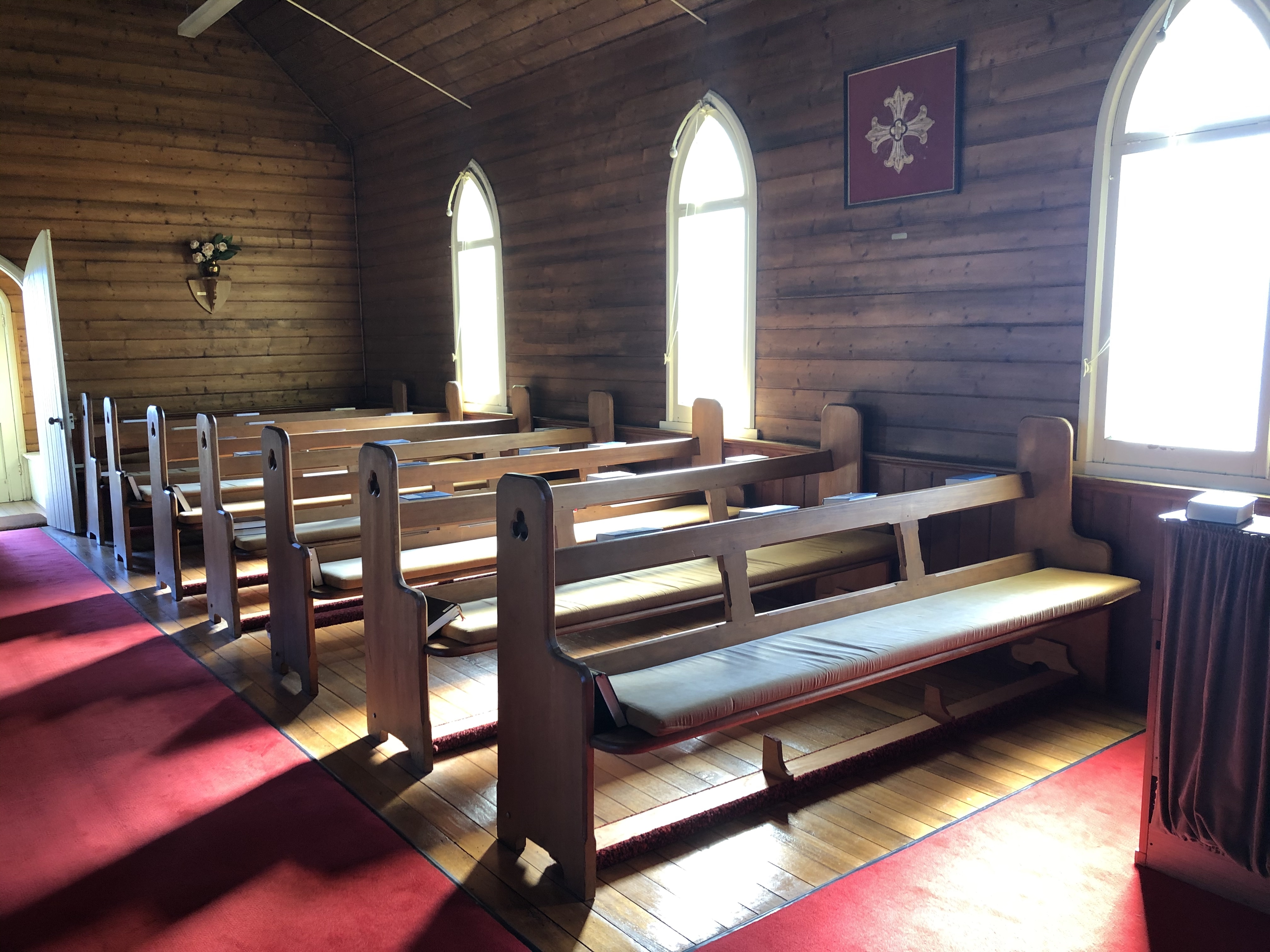 This represents a historic church in South Arm, Tasmania.